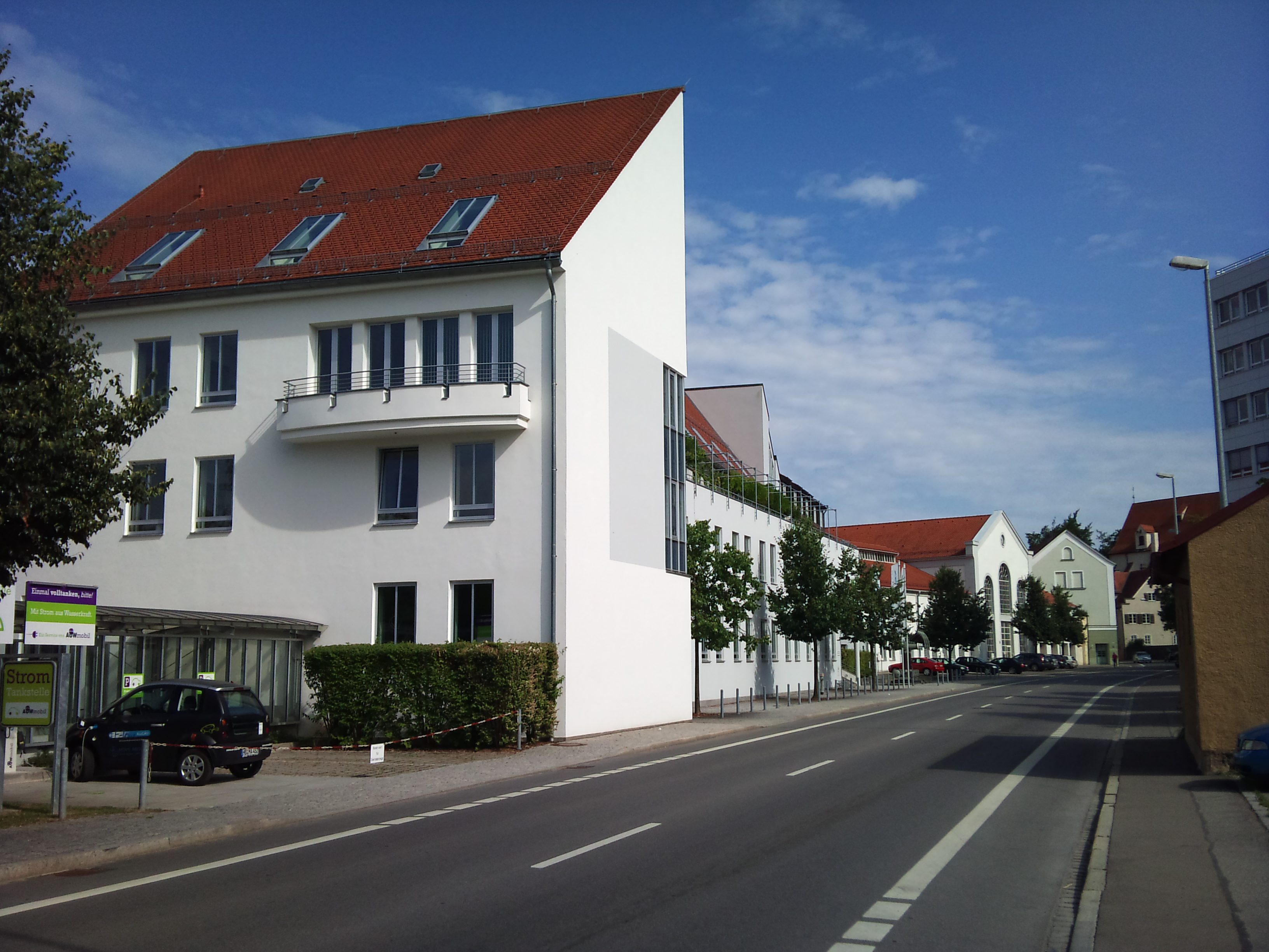 Shows headquarter of the electricity company "Allgäuer Überlandwerk" in Kempten.